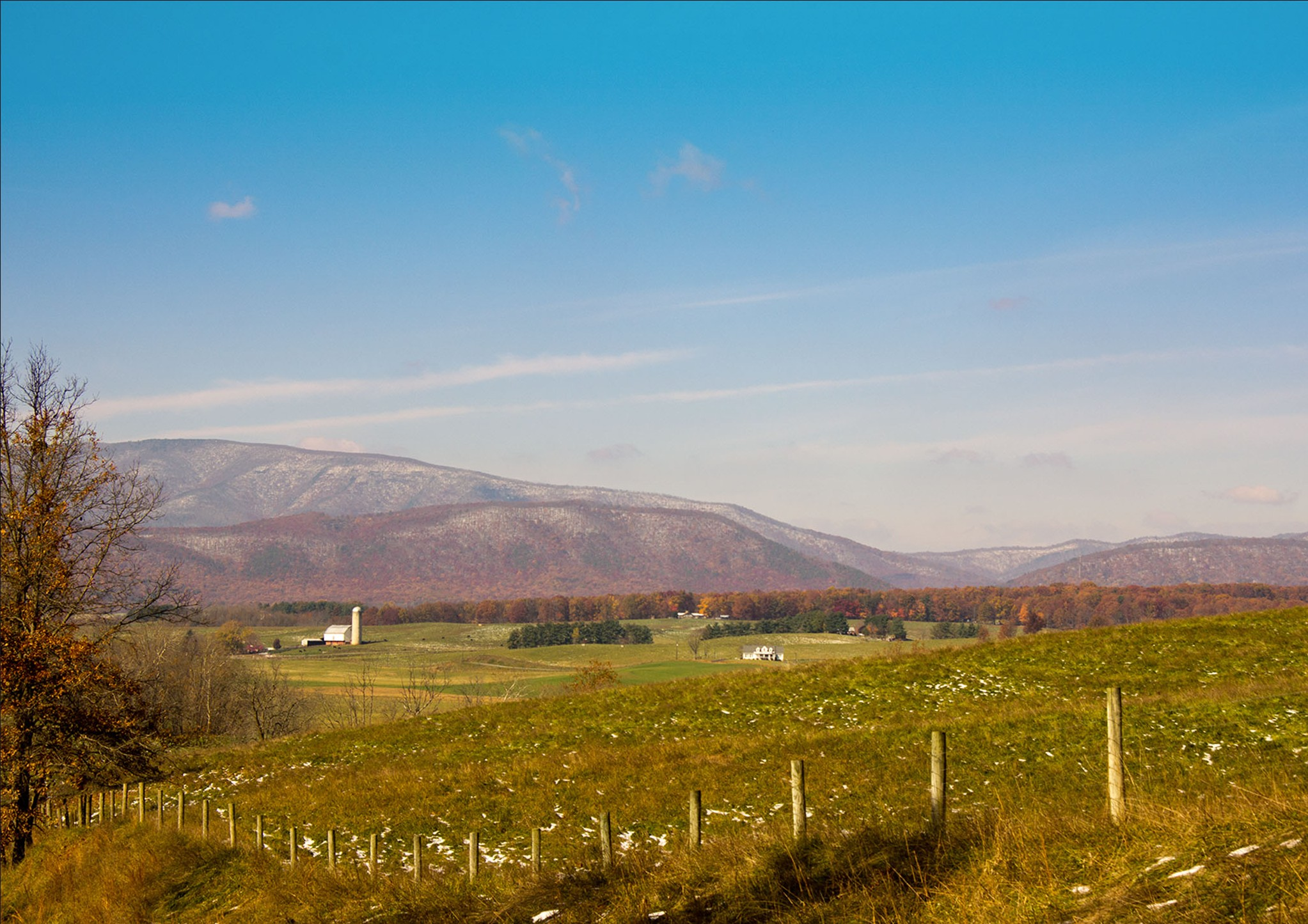 The Applachian mountains are in the distant in this view of a farm in the Shenandoah Valley.